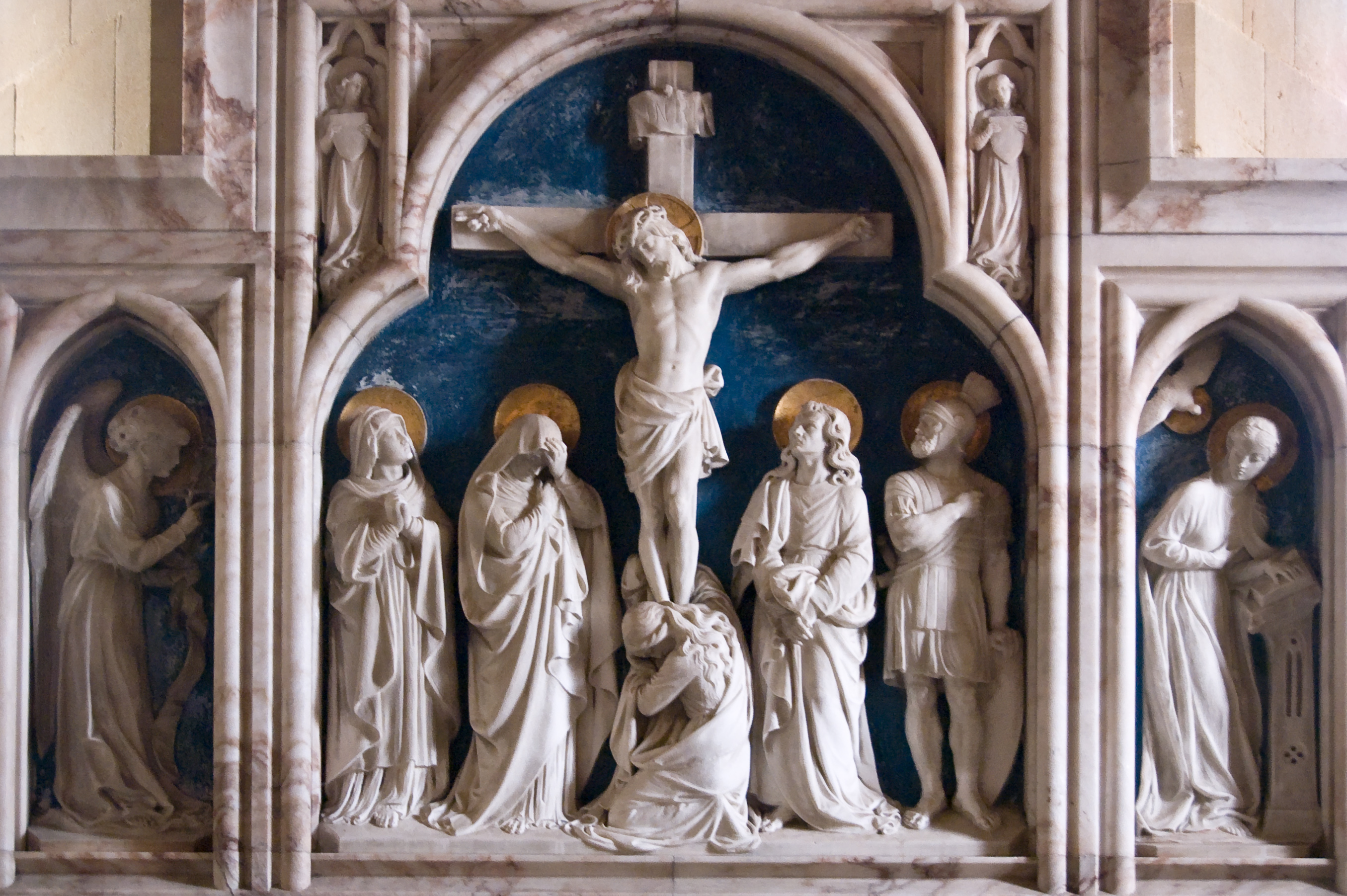 Restored 1872-5 : G E Street. Reredos : James Redfern from the church in Kirby Grindalythe Yorkshire. James Frank Redfern (1838-1876), sculptor, was born at Hartington, Derbyshire, in 1838. As a boy he showed a taste for art by carving and modelling from the woodcuts of illustrated papers. At the suggestion of the vicar of Hartington, he executed in alabaster a group of a warrior and a dead horse. This was brought to the notice of Alexander Beresford-Hope, on whose estate Redfern was born. Hope sent him to Paris to study for six months. His first work exhibited at the Royal Academy, Cain and Abel (1859), attracted the notice of John Henry Foley. He exhibited a Holy Family in 1861, The Good Samaritan in 1863, and other subjects almost every year until his death. These were at first chiefly of a sacred character, and afterwards portrait statues. His larger works were principally designed for Gothic church decoration.